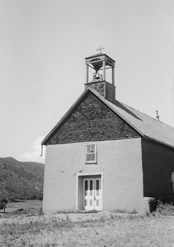 Vigil Plaza, Church, Weston vicinity, Las Animas County, CO, mid 19th century HABS COLO,36-WEST.V,1- . Frederick D. Nichols, Photographer Aug., 1936 URL